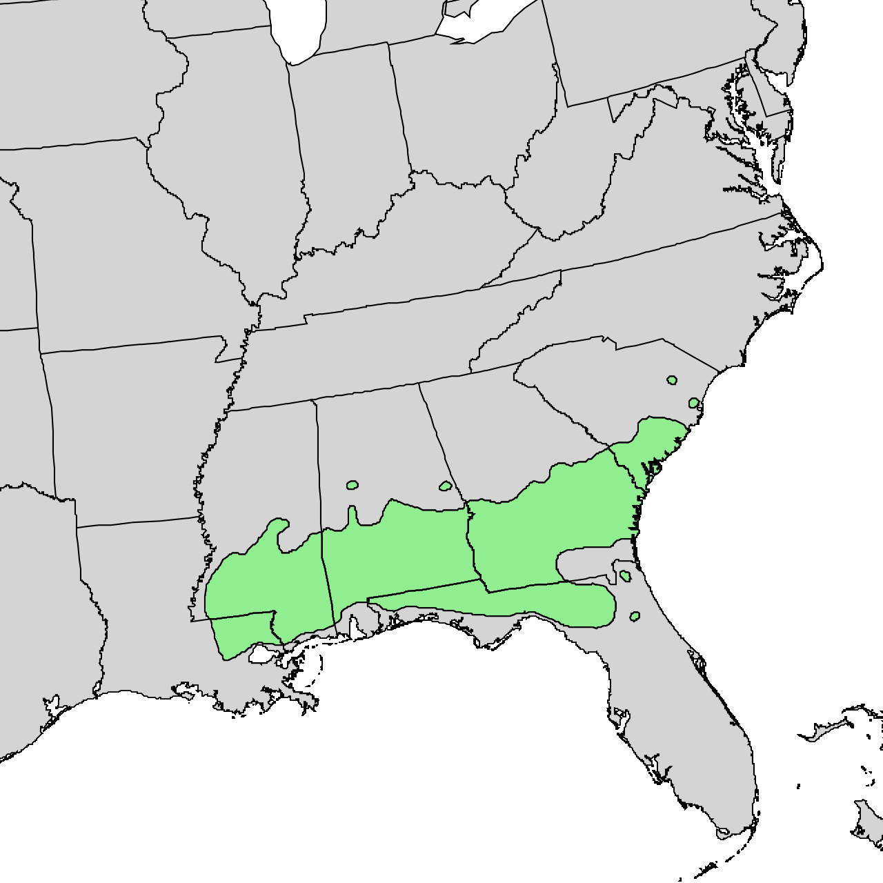 Natural distribution map for Pinus glabra